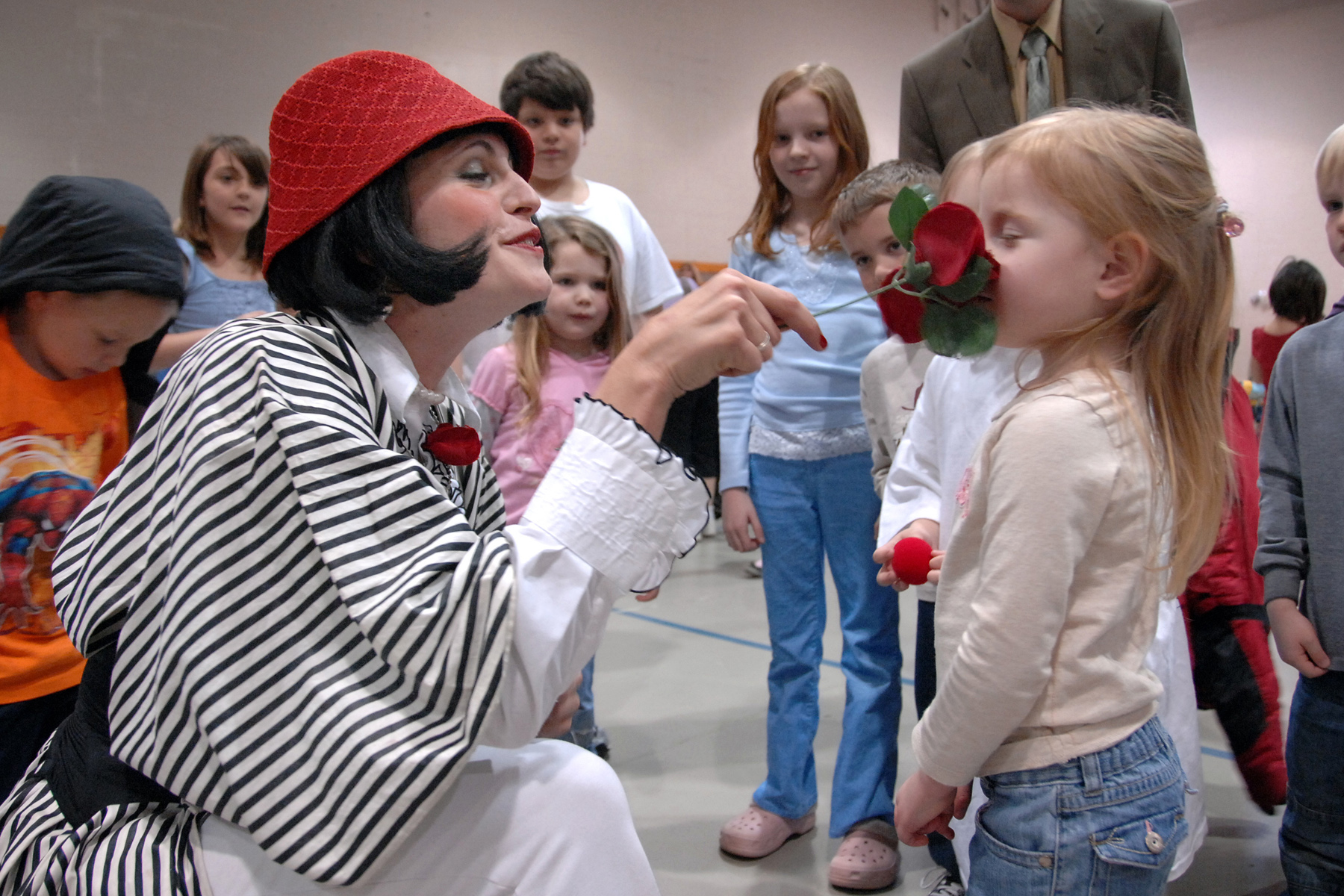 Pearl, a mime from the Cirque de Soleil’s Saltimbanco touring troupe, lets Kaydence Erickson, 3, smell a rose after giving her a clown nose during their performance April 1 at the Offutt Youth Center. The performance featured stilt walkers and mimes. The Cirque du Soleil’s touring troupe came to Offutt as part of a special ‘Month of the Military Child’ event during their regular promotional stops for their show in Omaha.